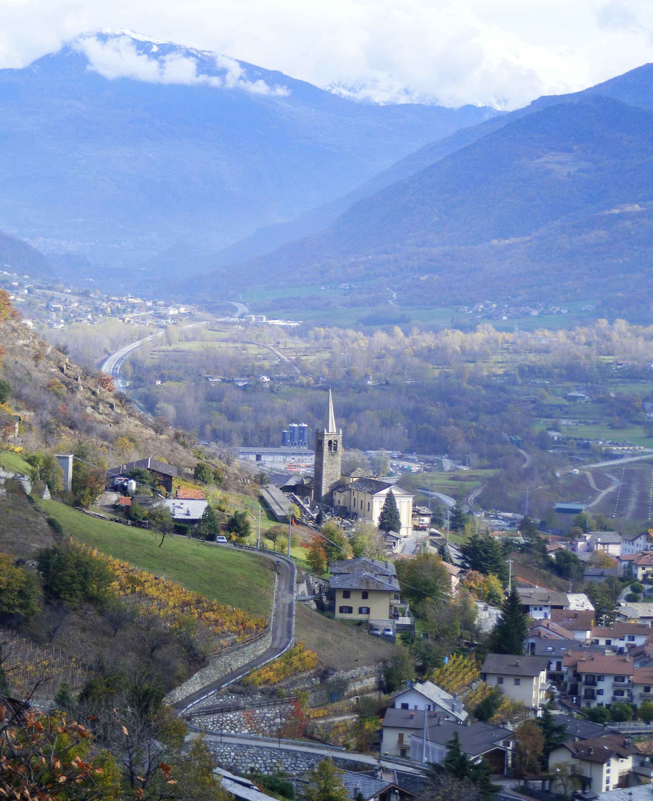 Nus (AO, Italy): panorama